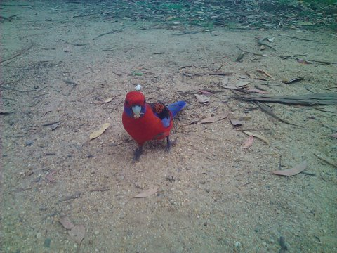 A Crimson Rosella at Hanging Rock, Victoria, Australia.